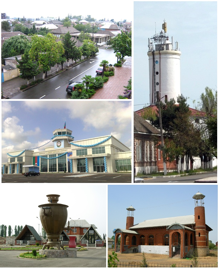 Views of Lankaran, Azerbaijan.